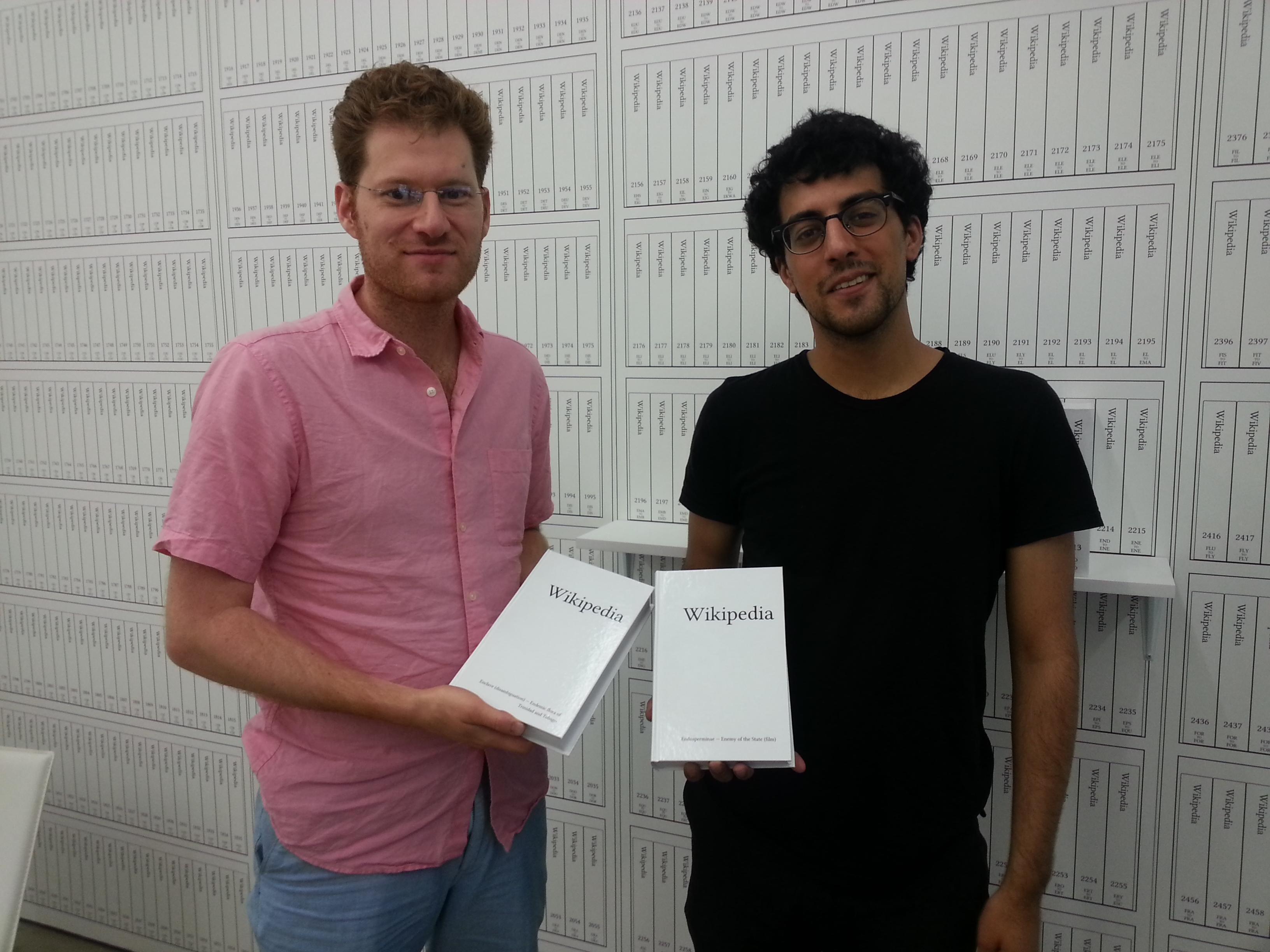 Artist Michael Mandiberg and his assistant Jonathan Kiritharan of the "Print Wikipedia" project, at the "From Aaaaa! to ZZZap!" exhibition, on the day before its opening at Denny Gallery, New York City, USA. Derivative work under CC BY-SA 3.0, based on work by Wikipedia contributors and Michael Mandiberg (User:Theredproject)